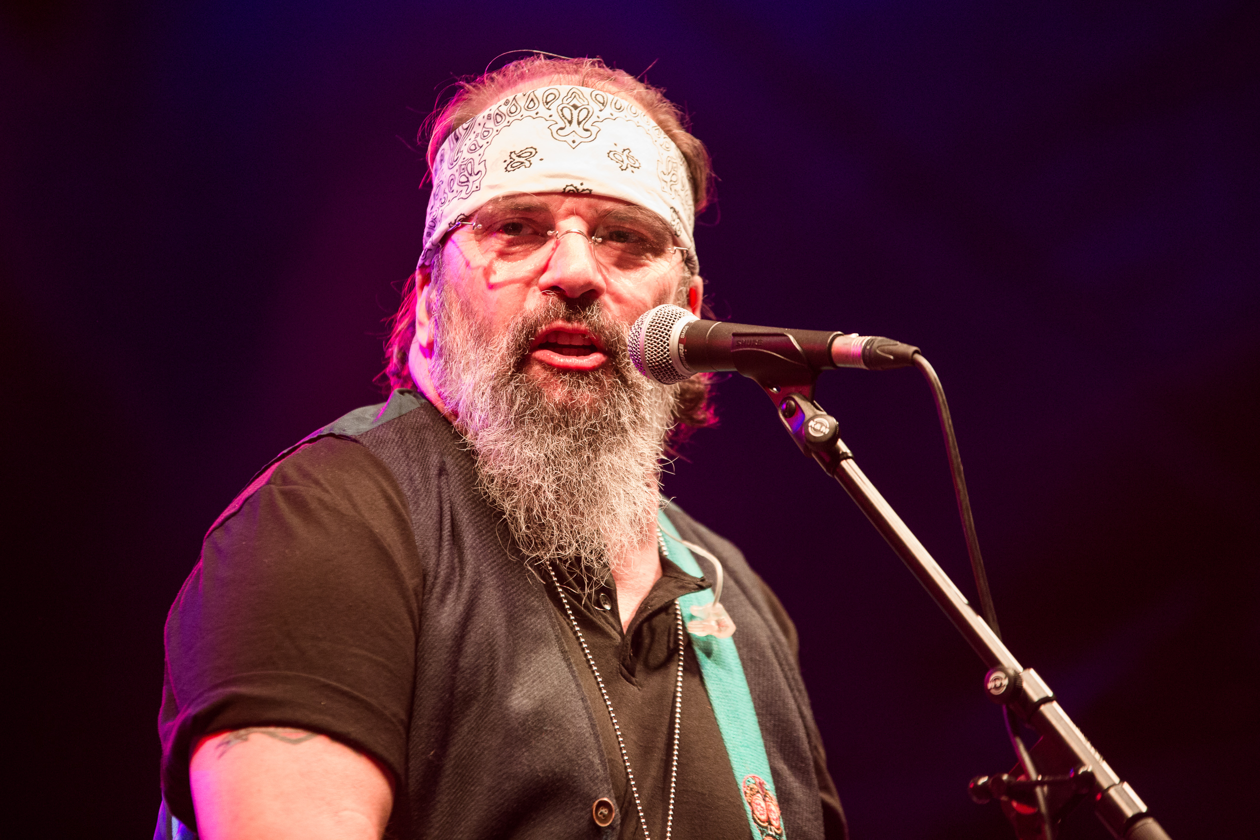 Steve Earle and the Dukes playing the opening concert of Rudolstadt-Festival 2018.